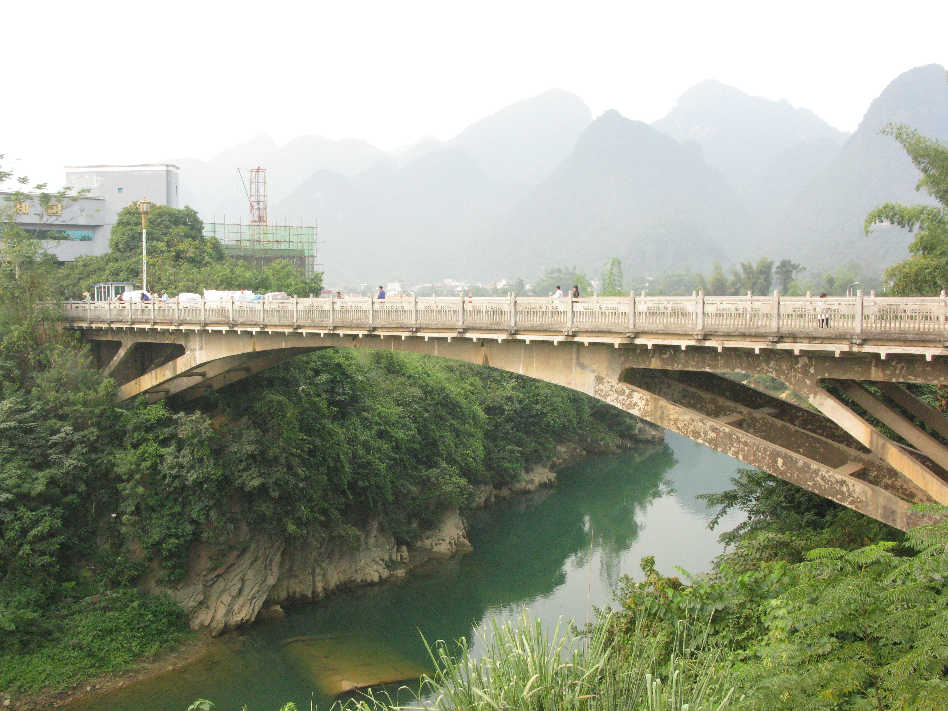 Bang River at Ta Lung (Cao Bang, Vietnam) - Suikou (Chongzuo, Longzhou, Guangxi, China)